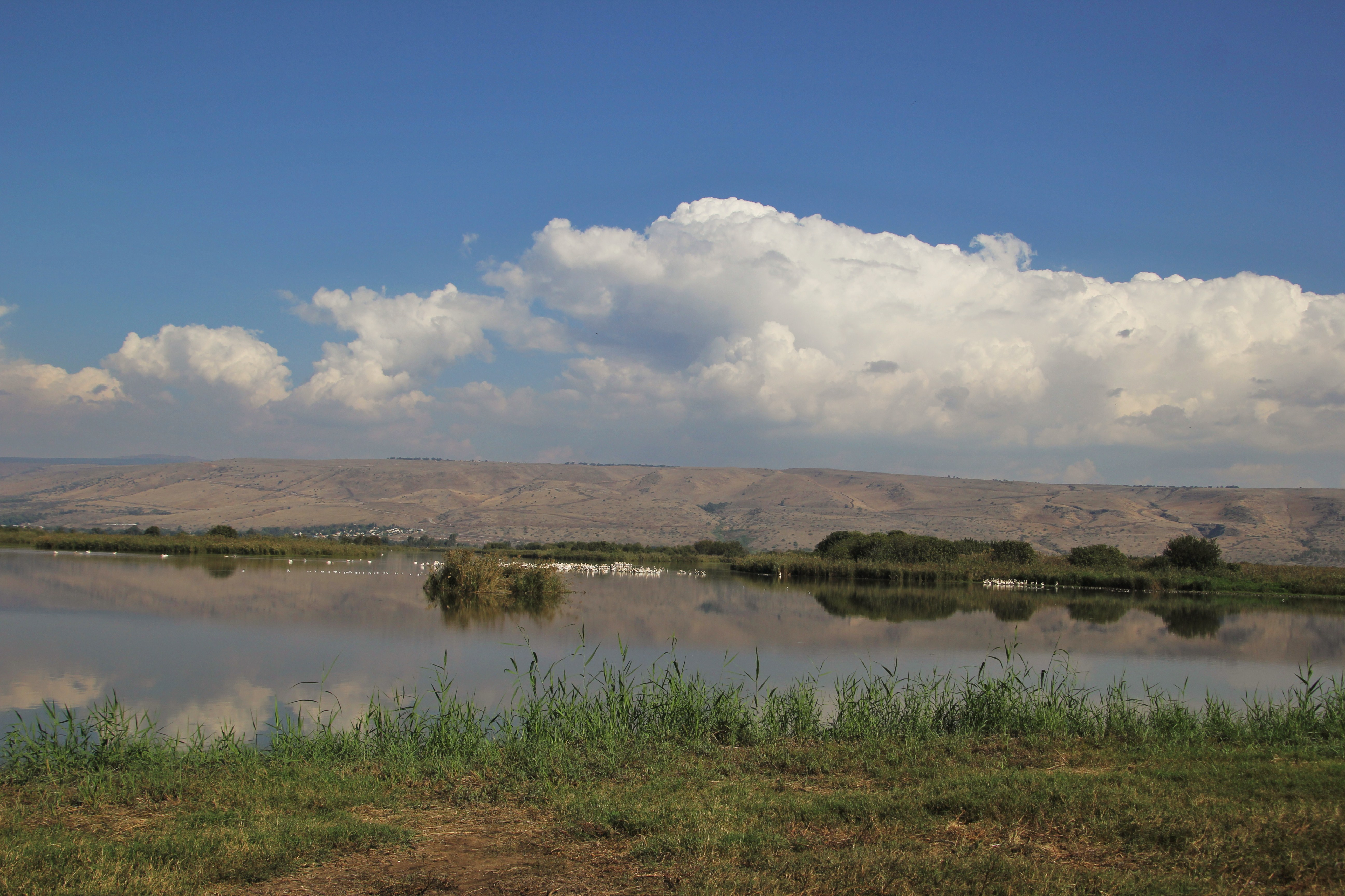 Reflection Lake Hula clouds autumn day